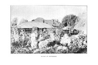 The house where the Ridley family lived in HIndmarsh, South Australia. Dates back to 1843.